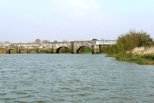 Arun journey. Approaching Greatham Bridge. The arches appear impossibly low to navigate, and indeed they are. It is only as you approach do you see the lattice girder section to the right which is the navigation channel. Next 804191